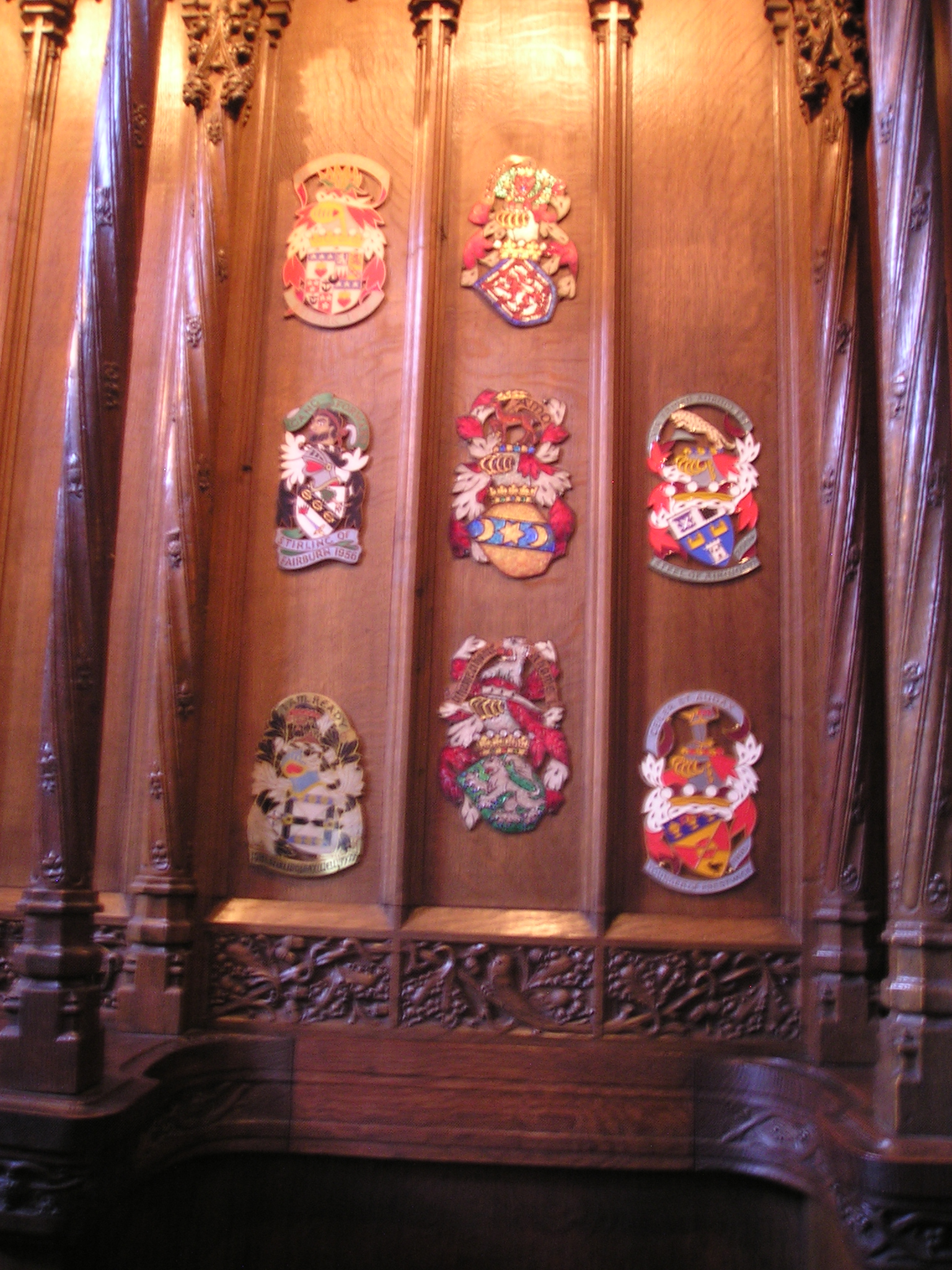 Stall plates of the Knights of the Thistle, in one of the stalls in the Thistle Chapel, St Giles Cathedral, Edinburgh. The upper stall plate in the rightmost column is that of Lord Steel of Aikwood, who was installed as a Knight of the Thistle shortly before this photo was taken (although appointed a Knight two years previously).